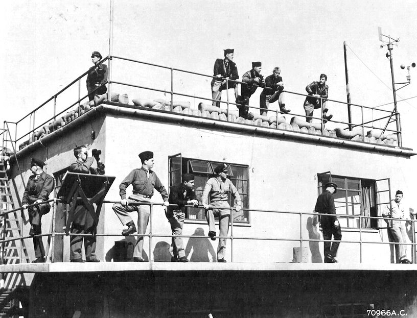 The control tower at the 491st Bomb Group's base at Metfield, Suffolk, England (Station 366).